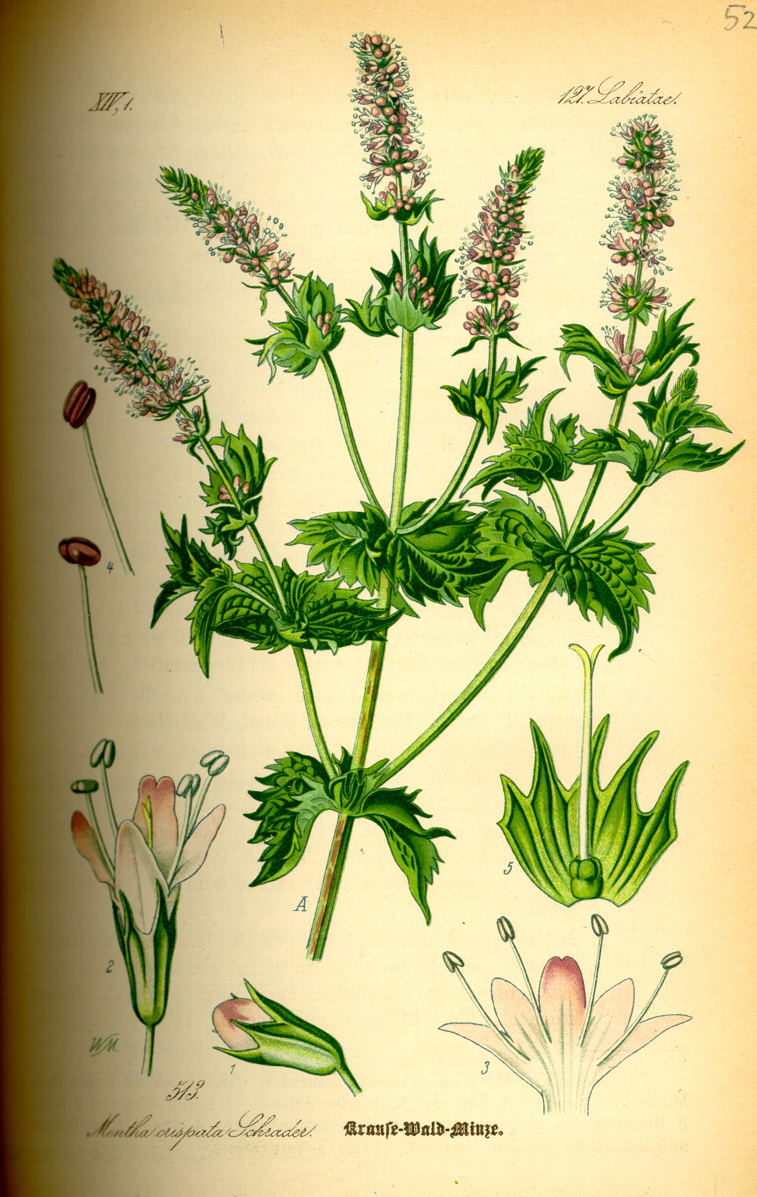 Illustration of Mentha spicata var. crispata (family: Lamiaceae).